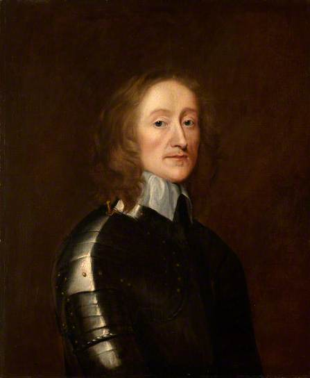 Portrait of Charles Fleetwood (c.1618-1692), English Parliamentarian soldier and politician, Lord Deputy of Ireland.